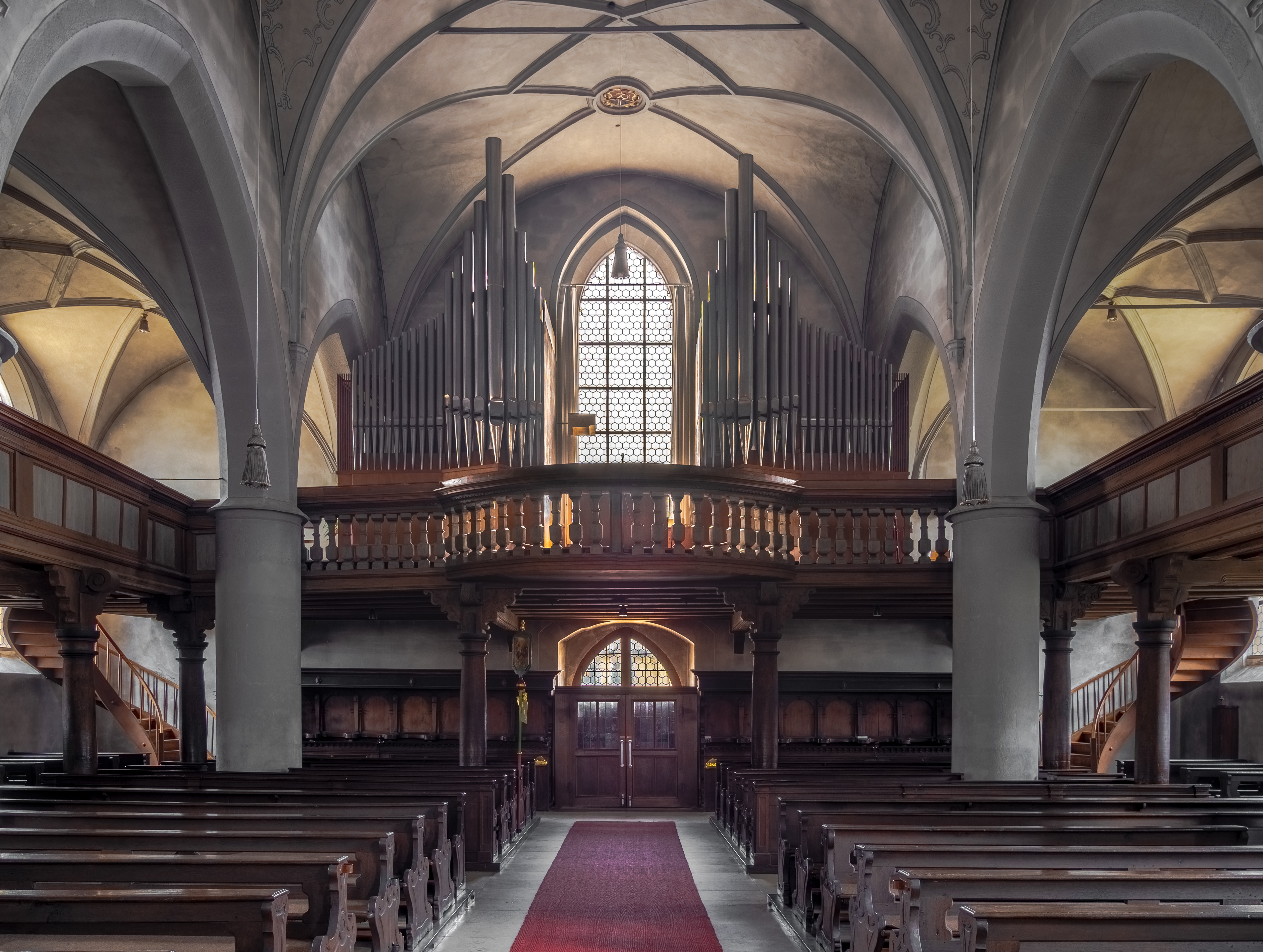 Organ loft of the catholic parish church St.Kilian in Scheßlitz